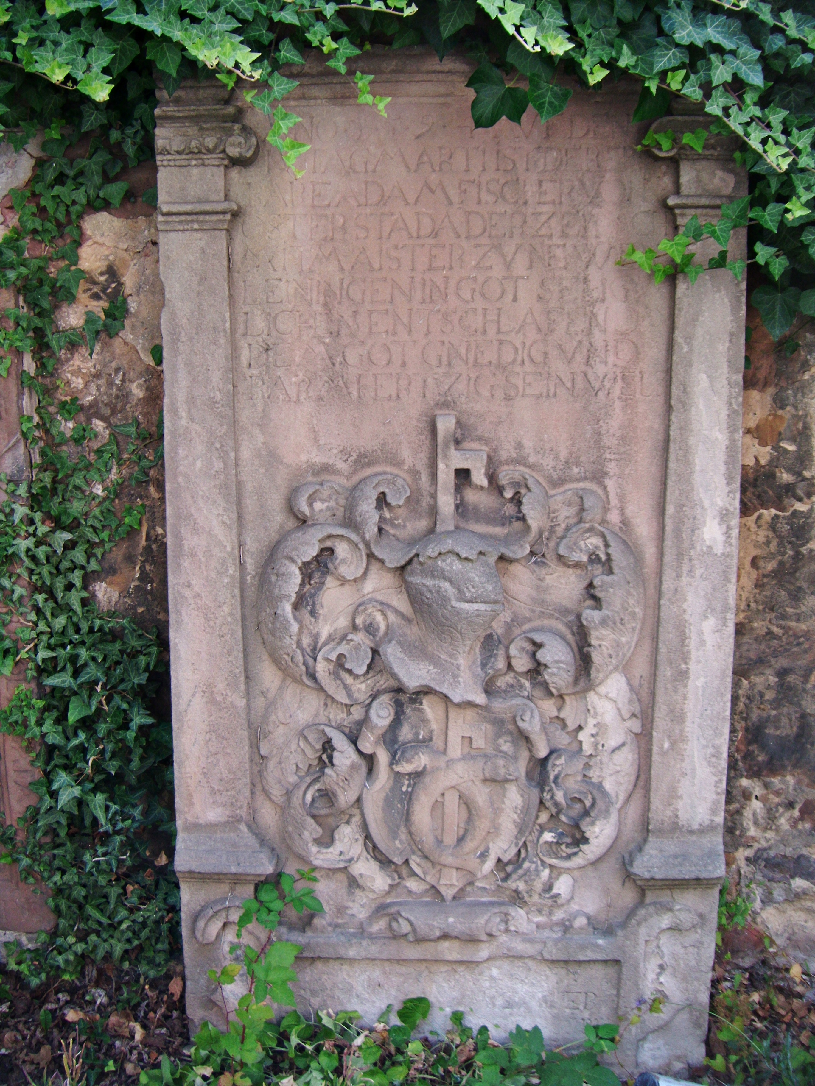 Prot. Peterskirche Sausenheim, Grabstein, Adam Fischer, 1594